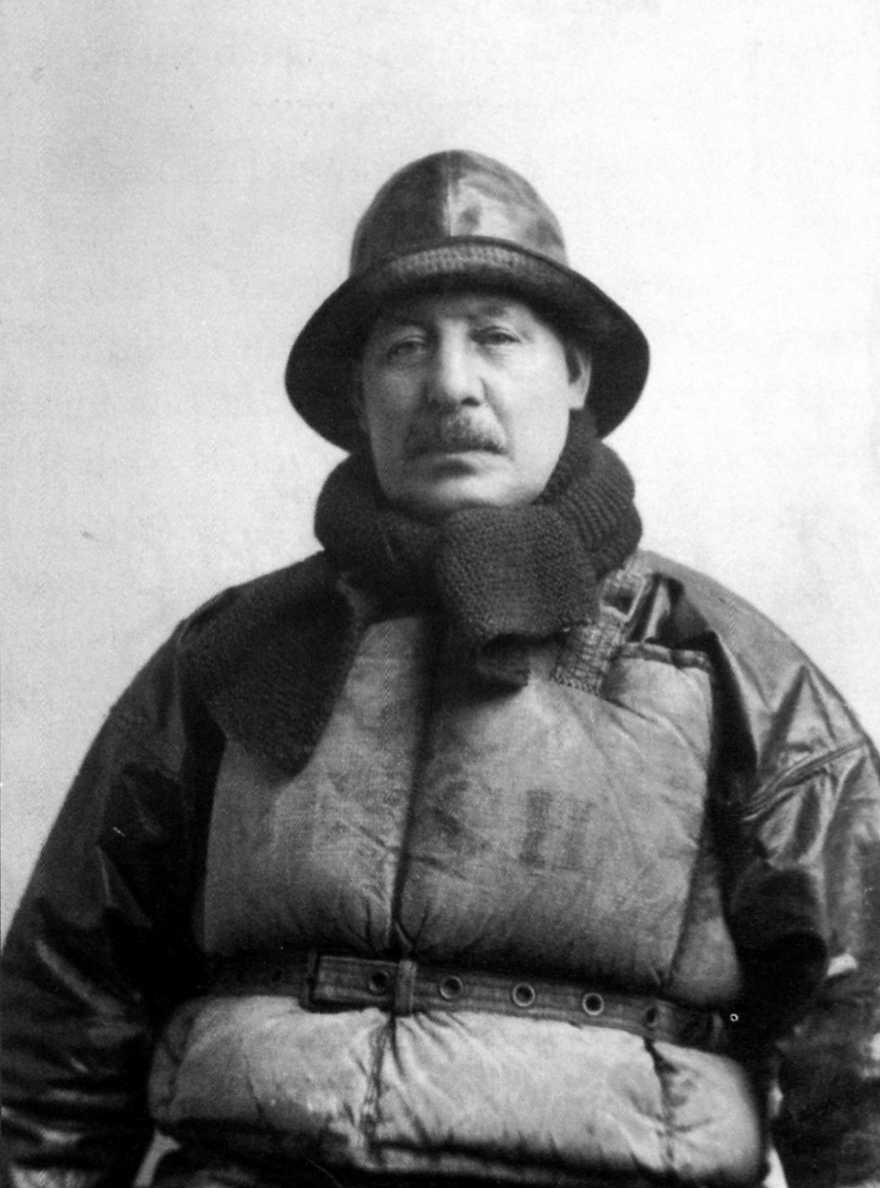 A digital photograph of a photograph portrait of William "Billy" George Flemming which was on an information board in the Time and Tide Museum in Great Yarmouth, Norfolk.